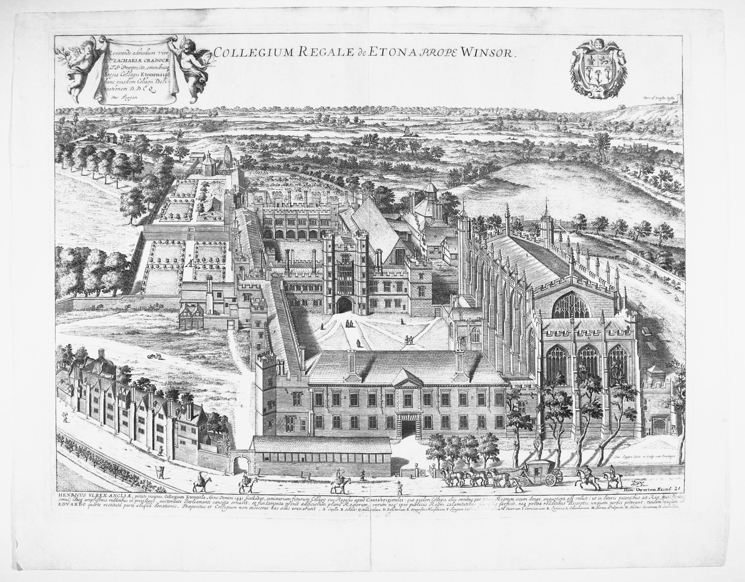 Bird's eye view of Eton College by David Loggan, published in his Cantabrigia Illustrata of 1690